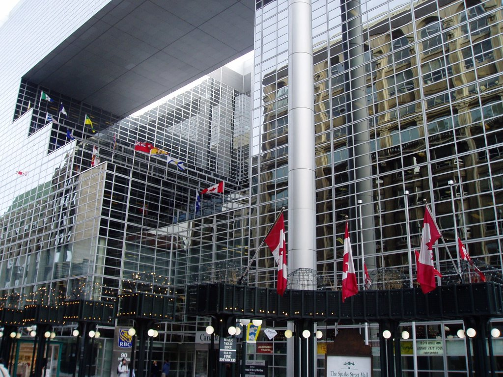 90 Sparks Street Building in Ottawa, Canada; formerly Royal Bank Building